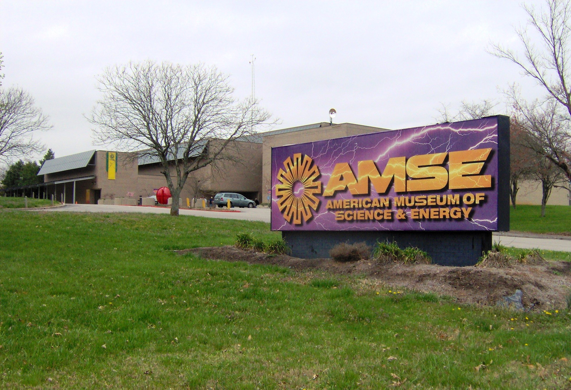 The American Museum of Science and Energy in Oak Ridge, Tennessee, in the southeastern United States.